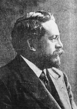 Yusuf Akcura (Scanned image)